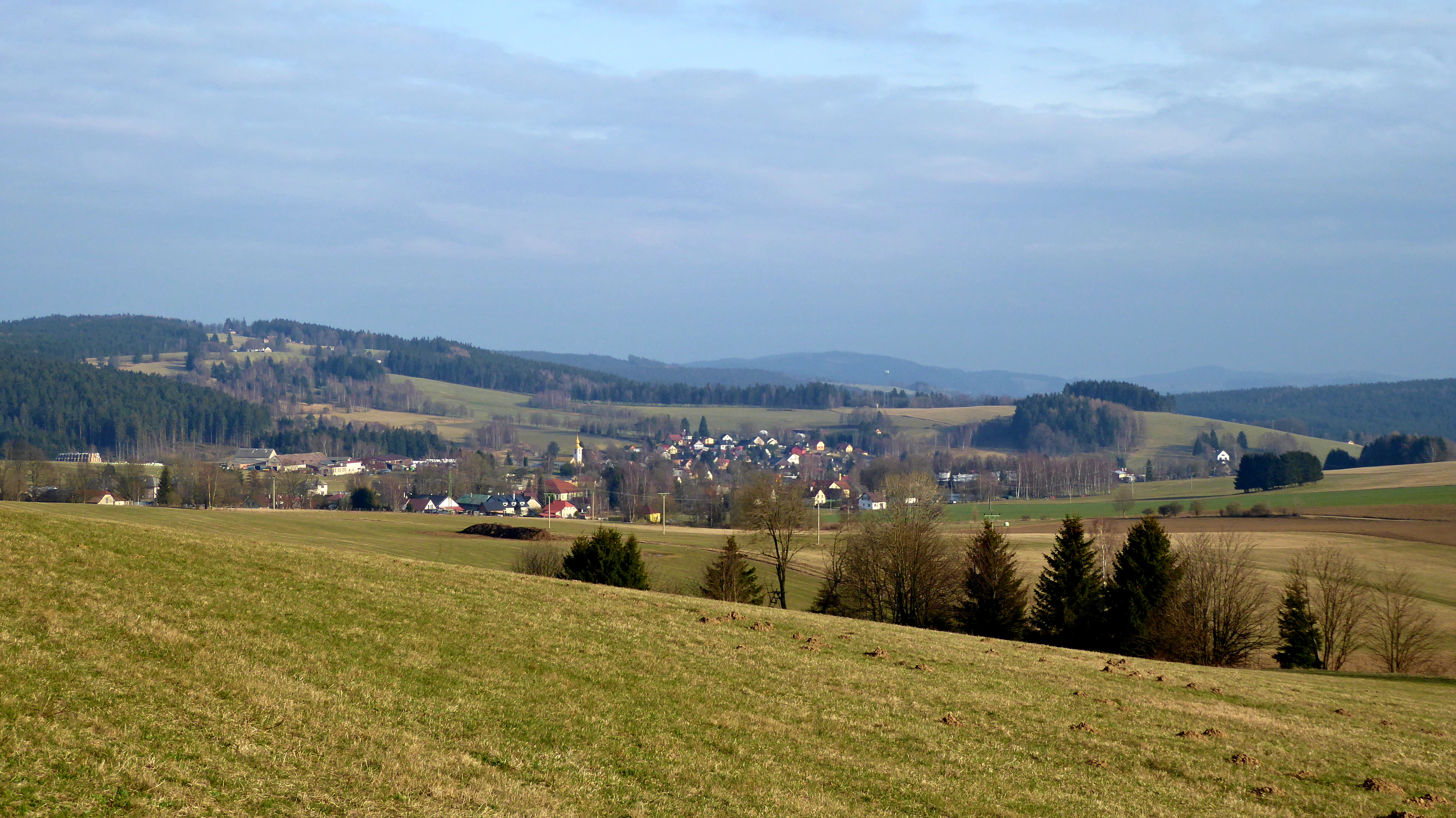 View from the top of a hill with a geographical name "U oběšeného", to the southeast of the top. Under the slopes a buildings of the village "Svratouch", to the left above a buildings is the village locality "Karlštejn" on the hill of the same name (the top 784 m asl.). Approximately in the middle of the photo is the tower of the Evangelical church in the village, on the right is "Louckého" hill (700,5 m asl.) above the bottom of the village. Locality in the Protected Landscape Area "Žďárské" Hills. Note: the slopes of a hill with name "U oběšeného" divide the main river basin of the european rivers Elbe and Danube, as well as geomorphological units with the names Iron Mountains and "Hornosvratecká" Highlands. Photo-location: Czechia, Pardubice Region, the village of "Svratouch".